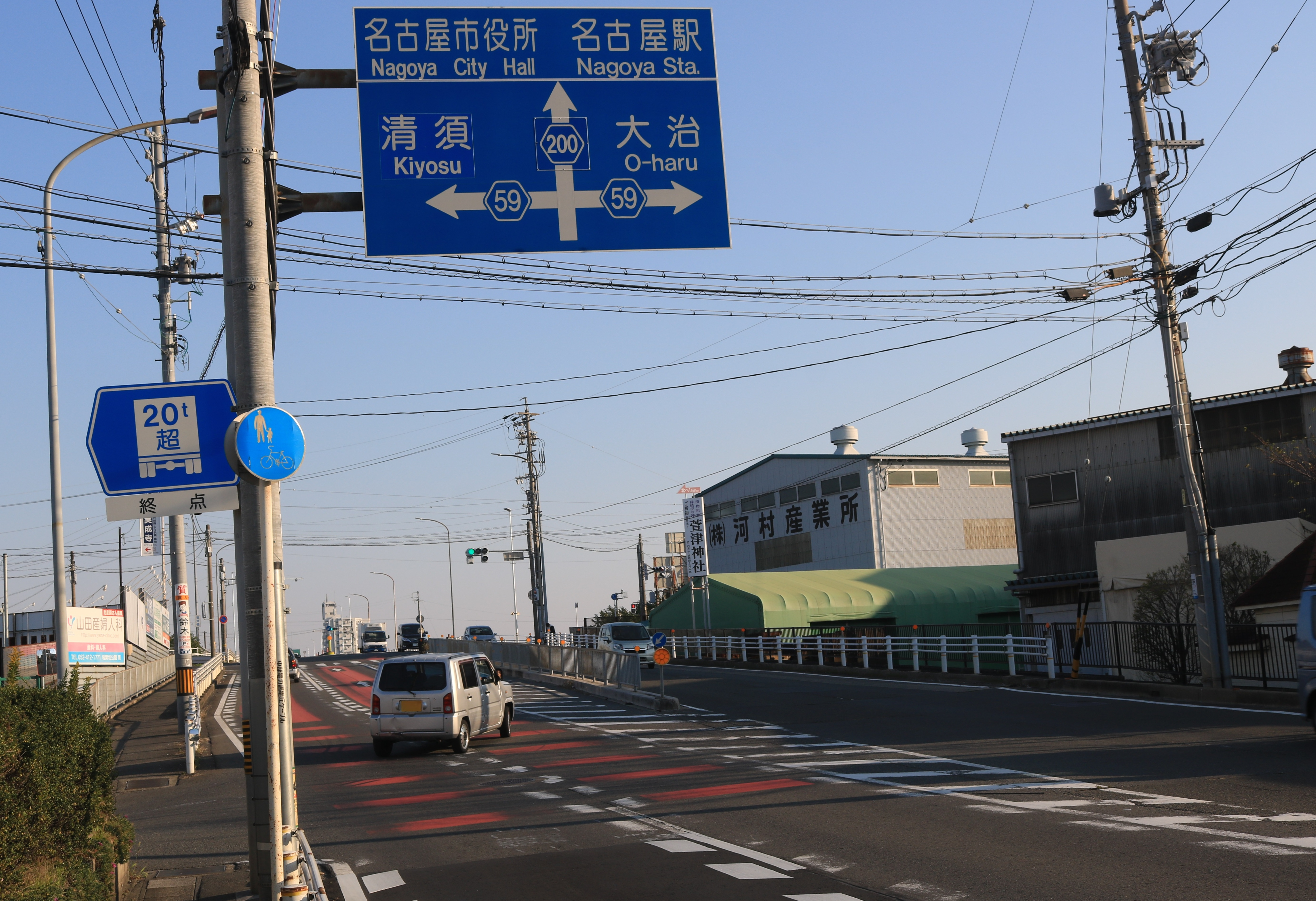 Aichi Prefectural Road Route 79 and Aichi Prefectural Road Route 59 in Shimokayazu, Ama, Aichi Prefecture, Japan.